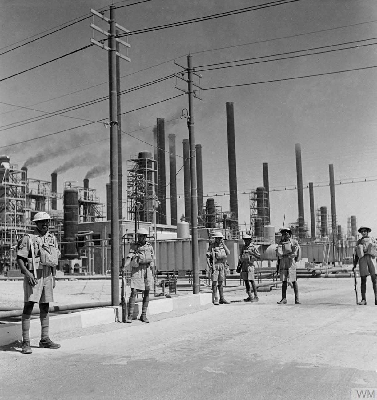 Pictures From Iran British troops attacked the island of Aradian on the River Shatt-el-Arab, at the head of the Persian Gulf, in order to gain control of a large oil refinery, belonging to the Anglo-Iranian Oil Company. Indian troops were landed from assault ships from the quayside and they attacked the Iranian strong points in the refinery. This image shows a view of the Indian riflemen seen at various points in the refinery on guard.